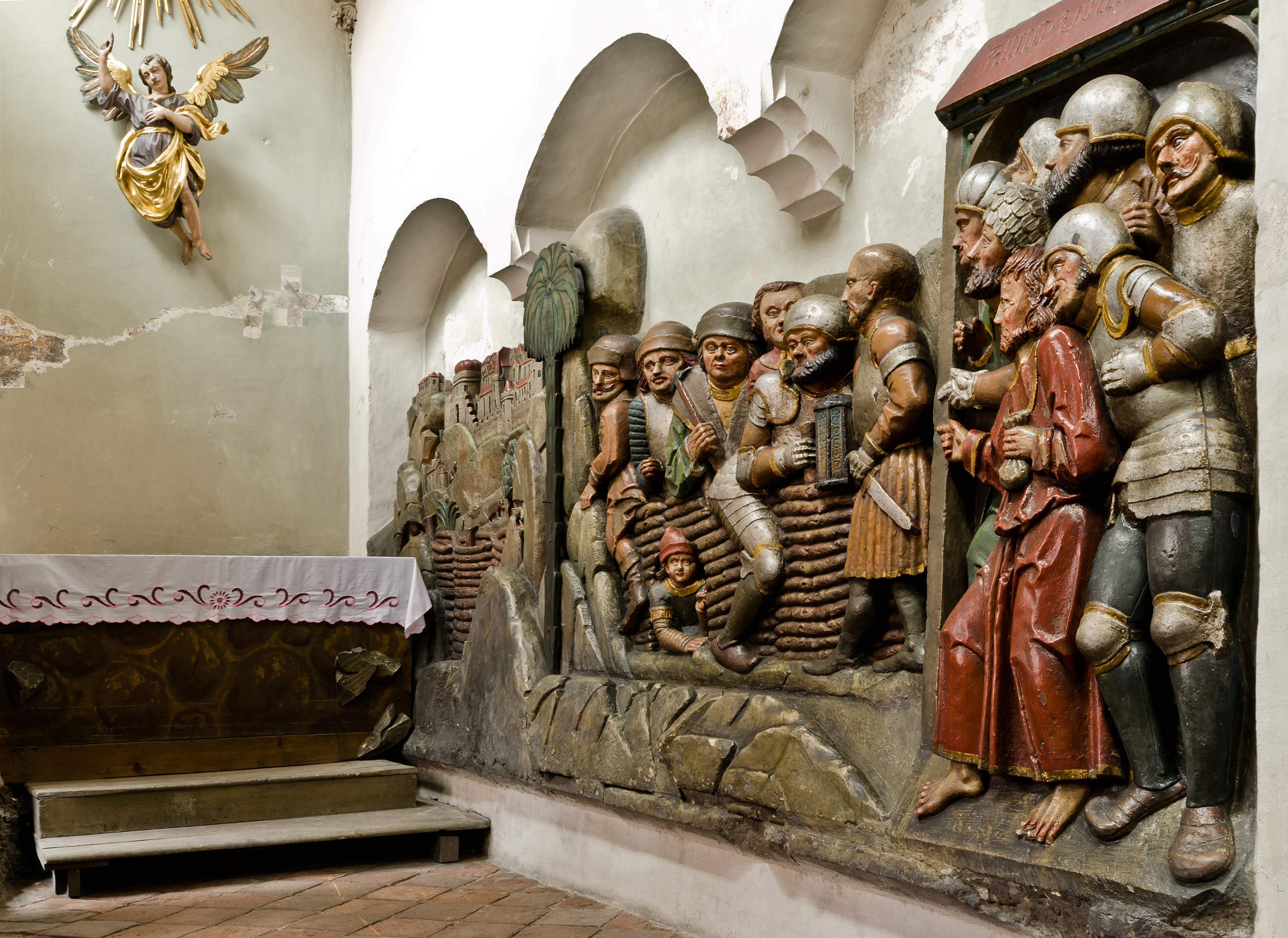 Church of the Assumption in Kłodzko